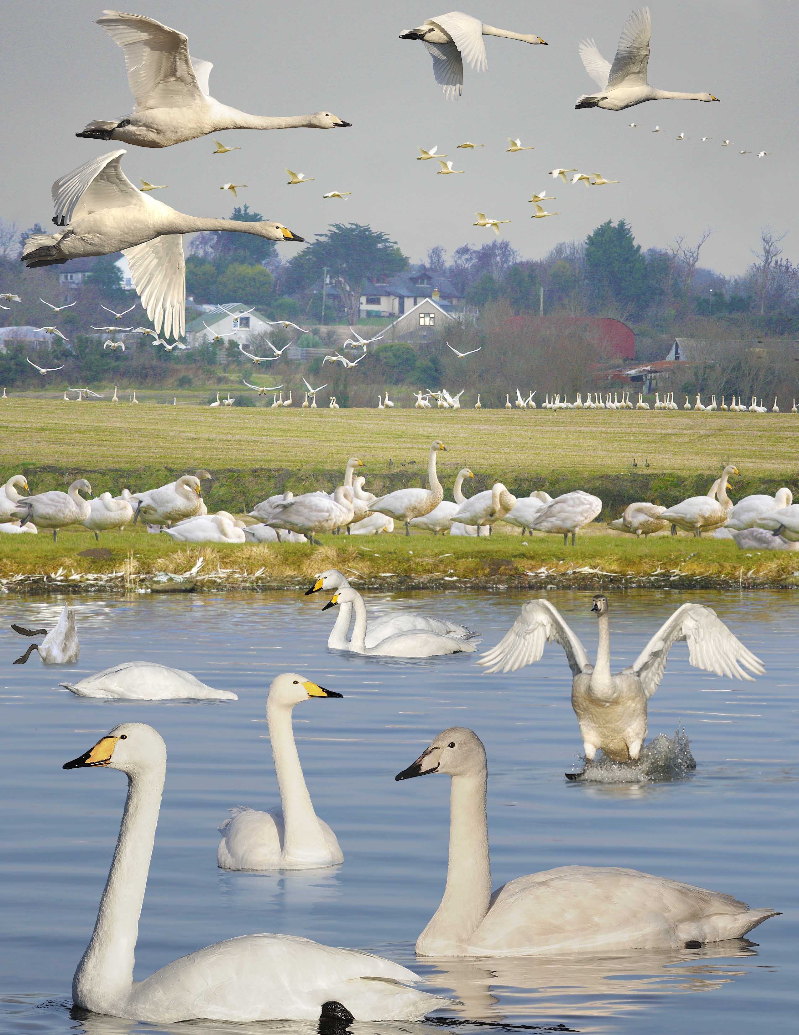 Whooper Swan from the Crossley ID Guide Britain and Ireland